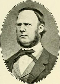 Portrait of the Swedish botanist C. Hartman